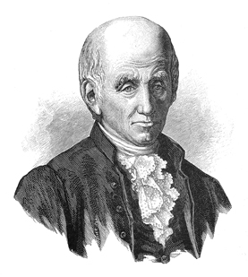 French botanist Michel Adanson (1727-1806) Michel Adanson Michel Adanson Michel Adanson